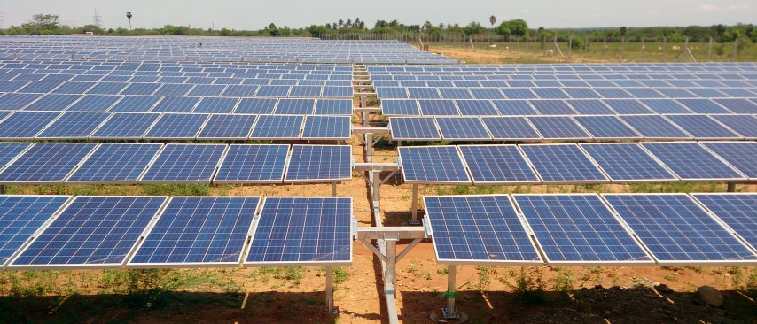 4MW horizontal single axis tracker in Vellakoil, Tamil Nadu, India